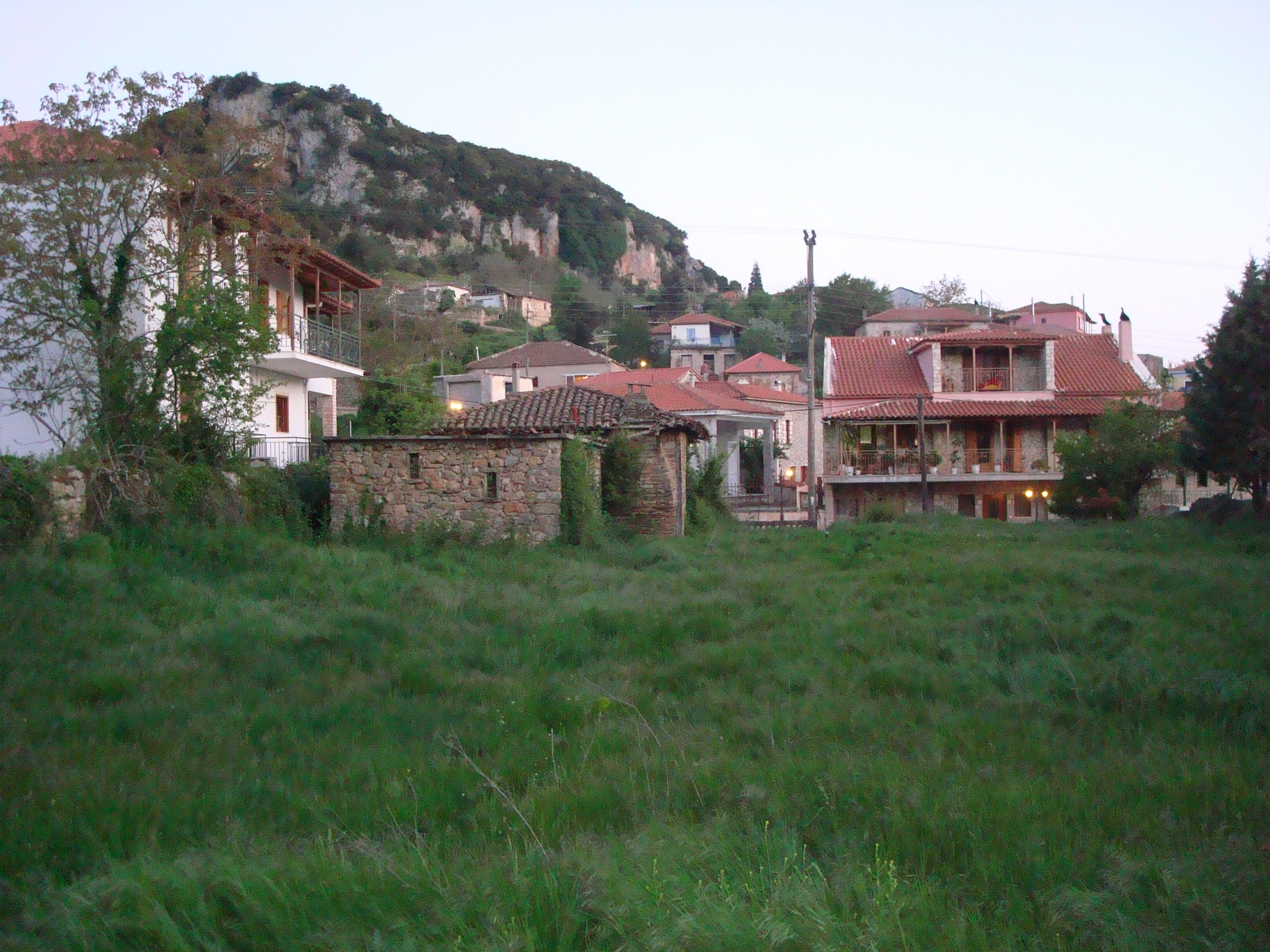 View of Goura village in Korinthia (Corinth) prefecture, Greece